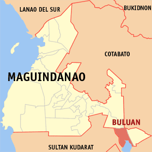 Map of the Maguindanao showing the location of Buluan